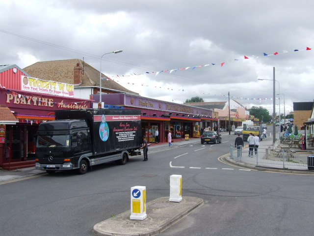 The Promenade, Leysdown on Sea